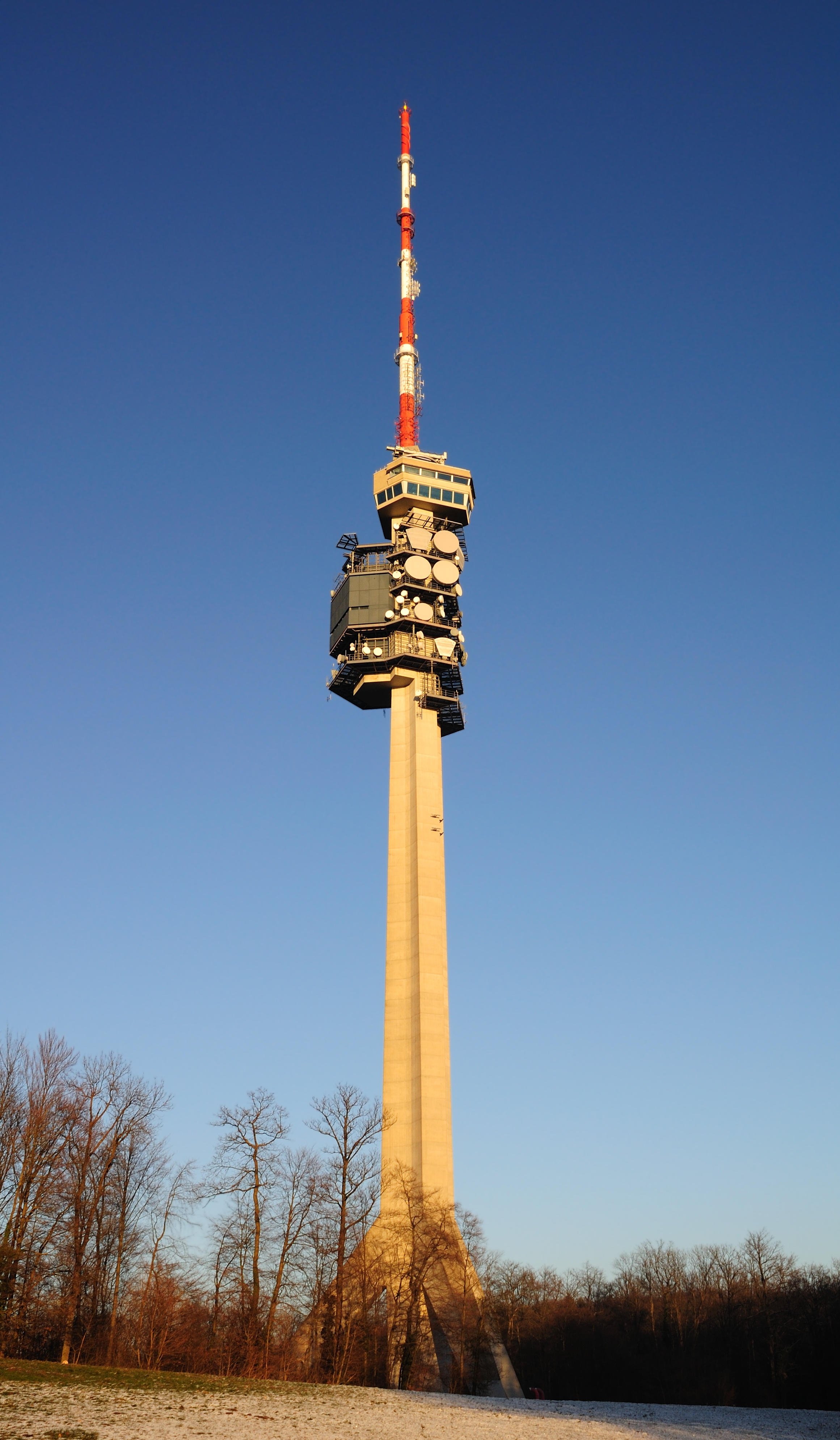 St. Chrischona TV Tower